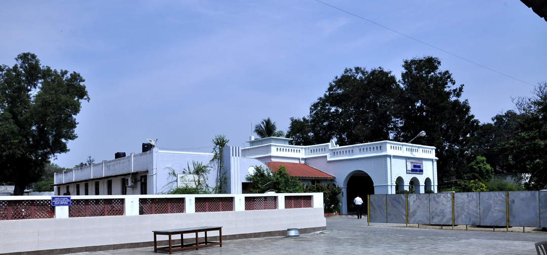 Pakshiraja studios's inner side view